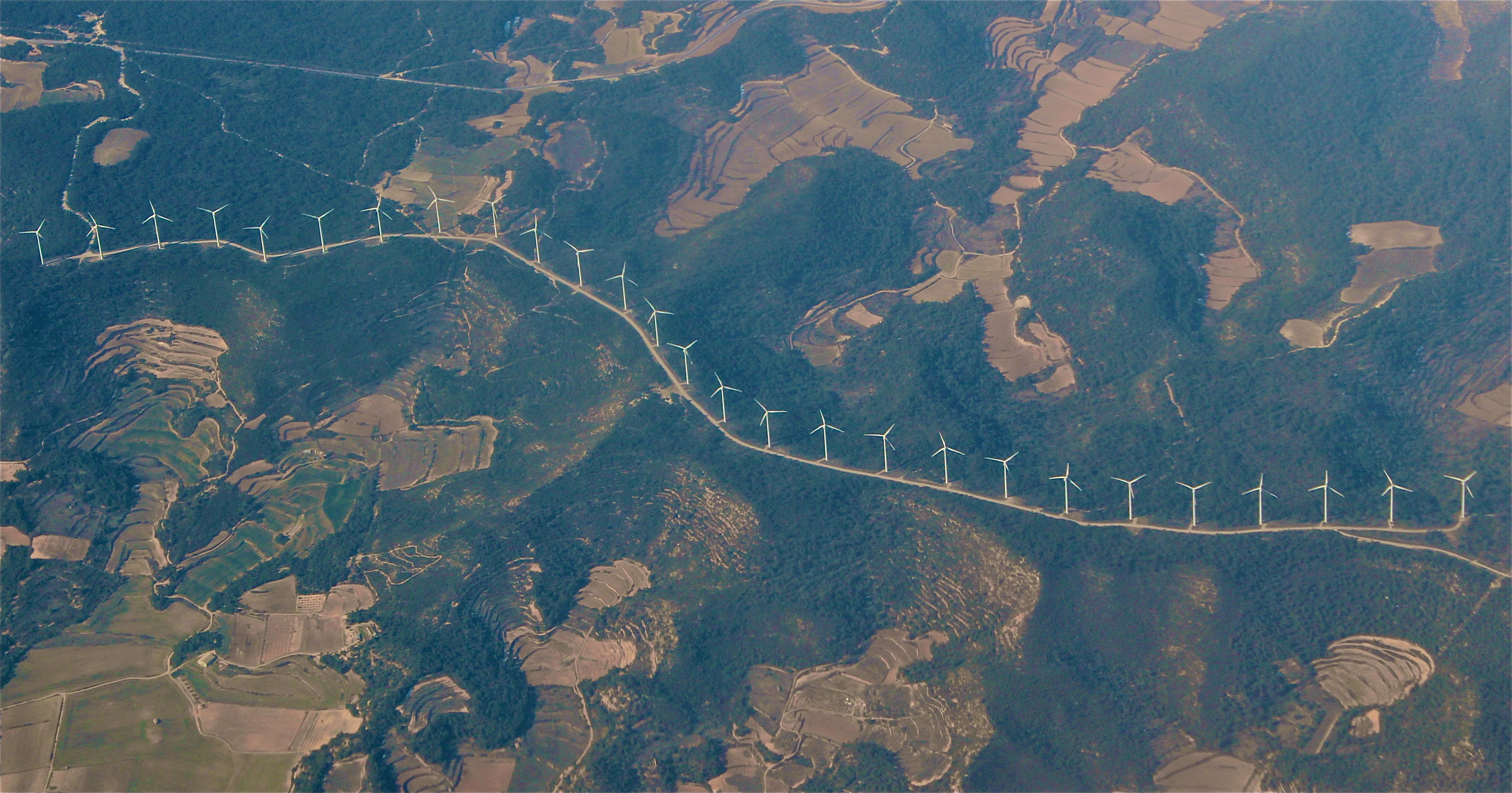 aerial view of Serra del Tallat wind farm.